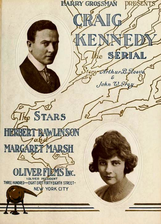 Ad for the American film serial The Carter Case (1919) under its working title The Craig Kennedy Serial with Marguerite Marsh and Herbert Rawlinson, on page 1439 of the March 15, 1919 Moving Picture World.